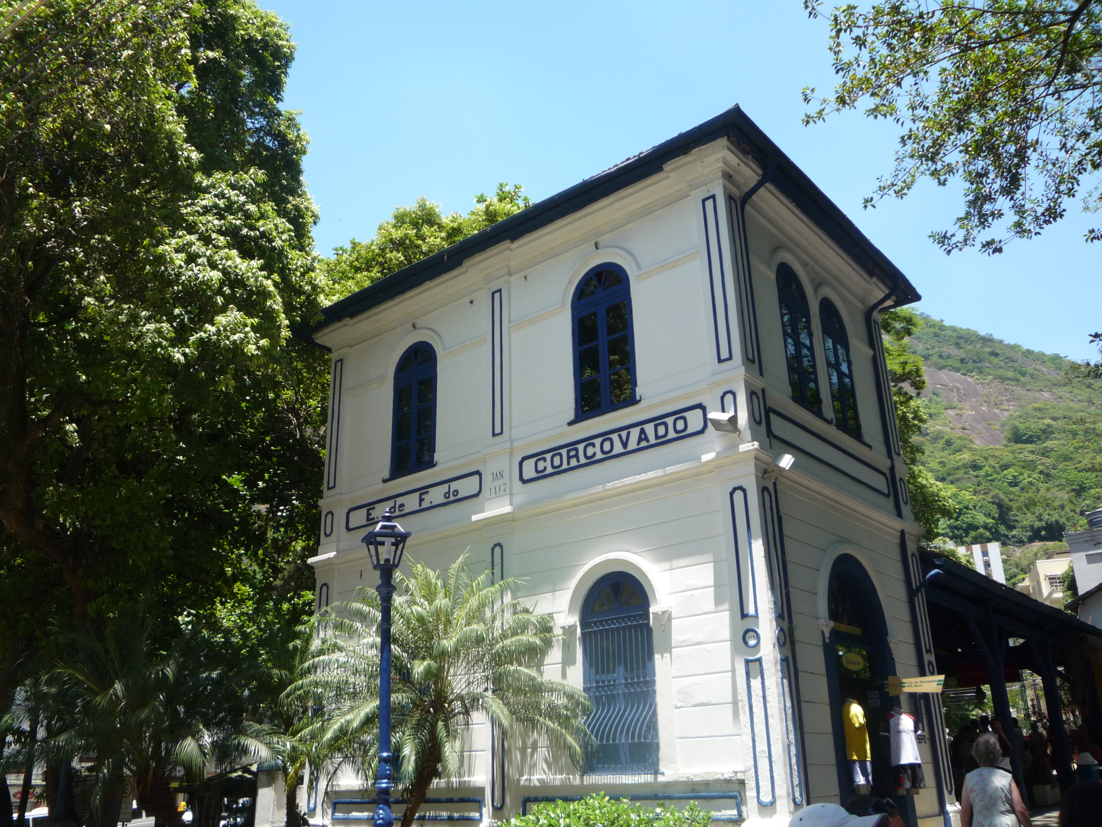 Corcovado Railway Station in Rio de Janeiro, Brazil